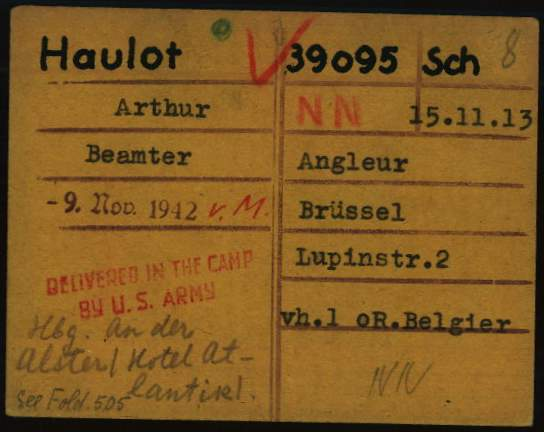 Registration card of Arthur Haulot as a prisoner at Dachau Nazi Concentration Camp. Red stamp means he was liberated from Dachau by the U. S. Army. Red “NN” identifies a prisoner under “Nacht und Nebel” directive. Red “v.M.” identifies date of arrival at Dachau, transferred from Mauthausen.